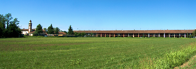 View of Cascine Gandini, province of Cremona, Italy